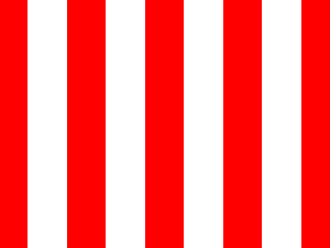 own work